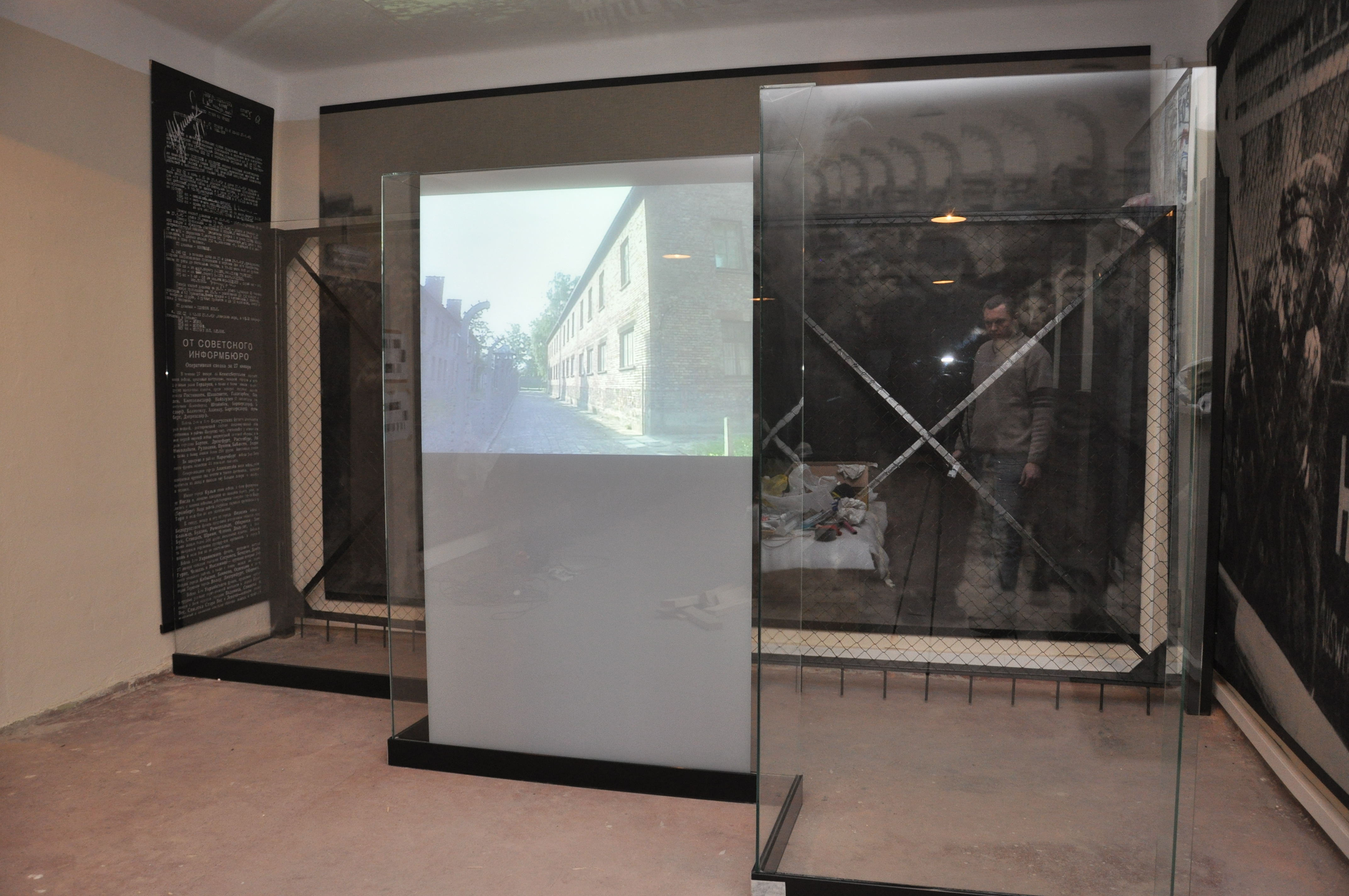 Smart Glass Projection Screen - Off